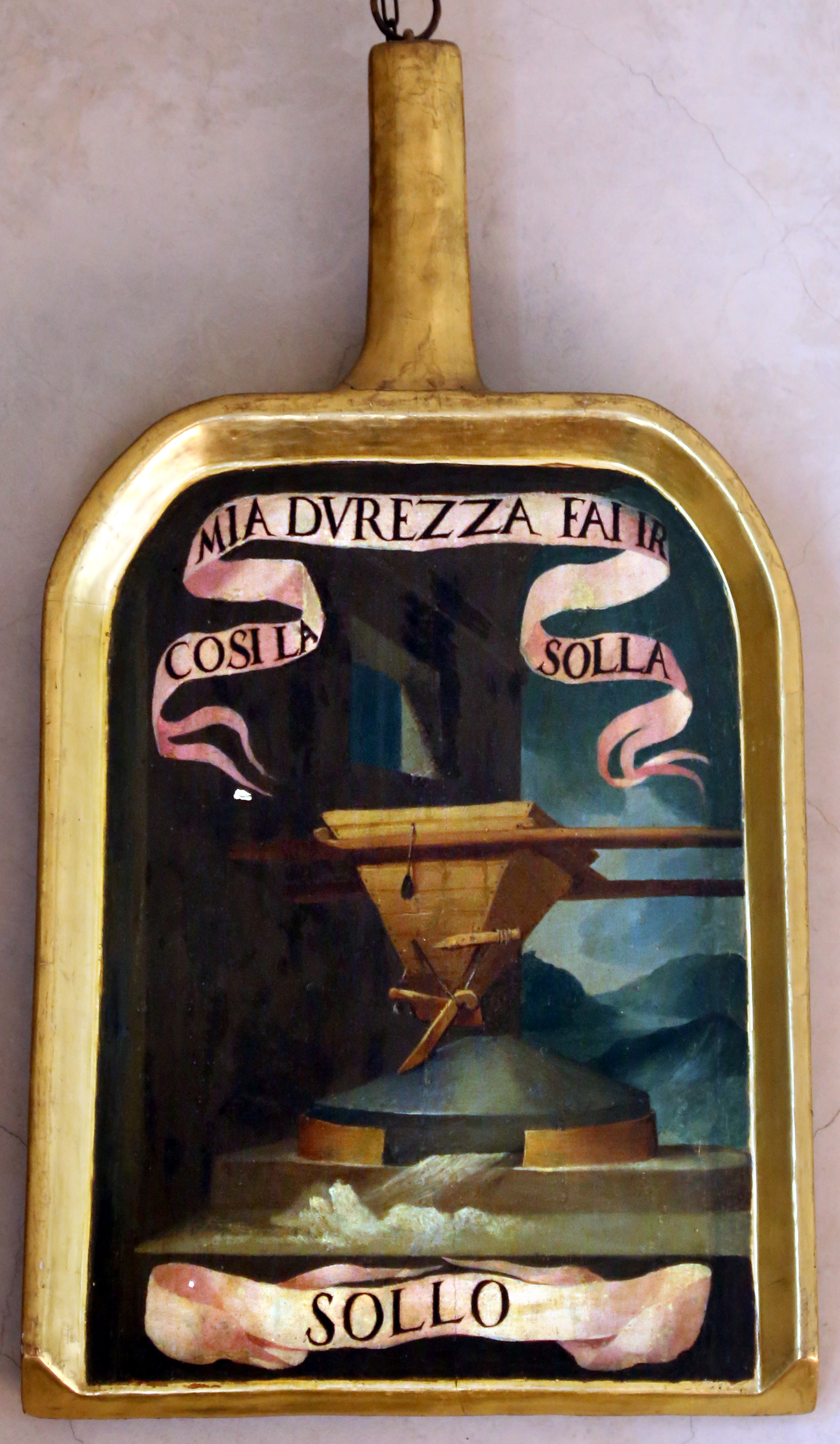 Shovels of Accademici della Crusca